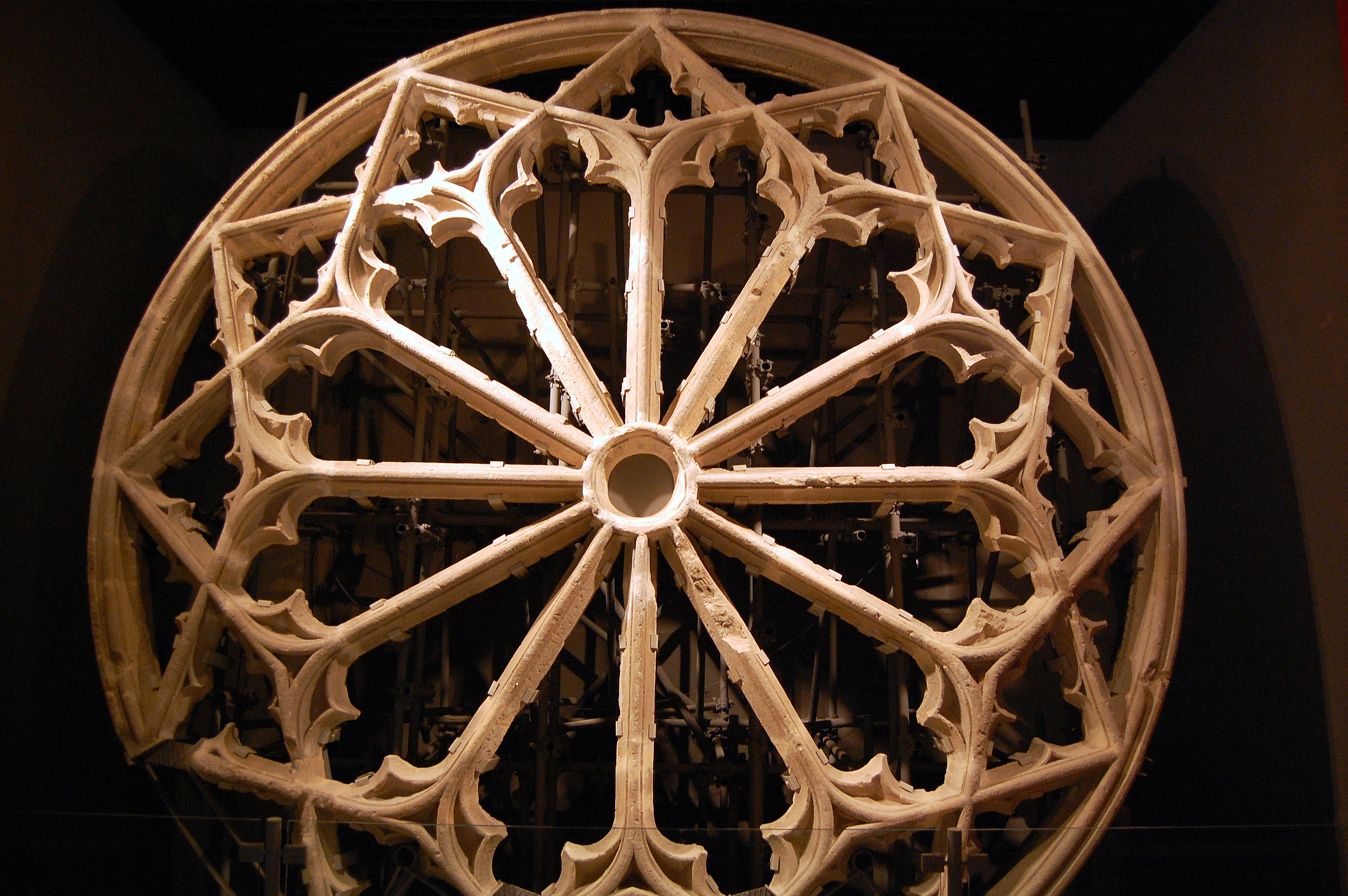 Rose window of the church of the Carmes, musée d'Aquitaine, Bordeaux, France